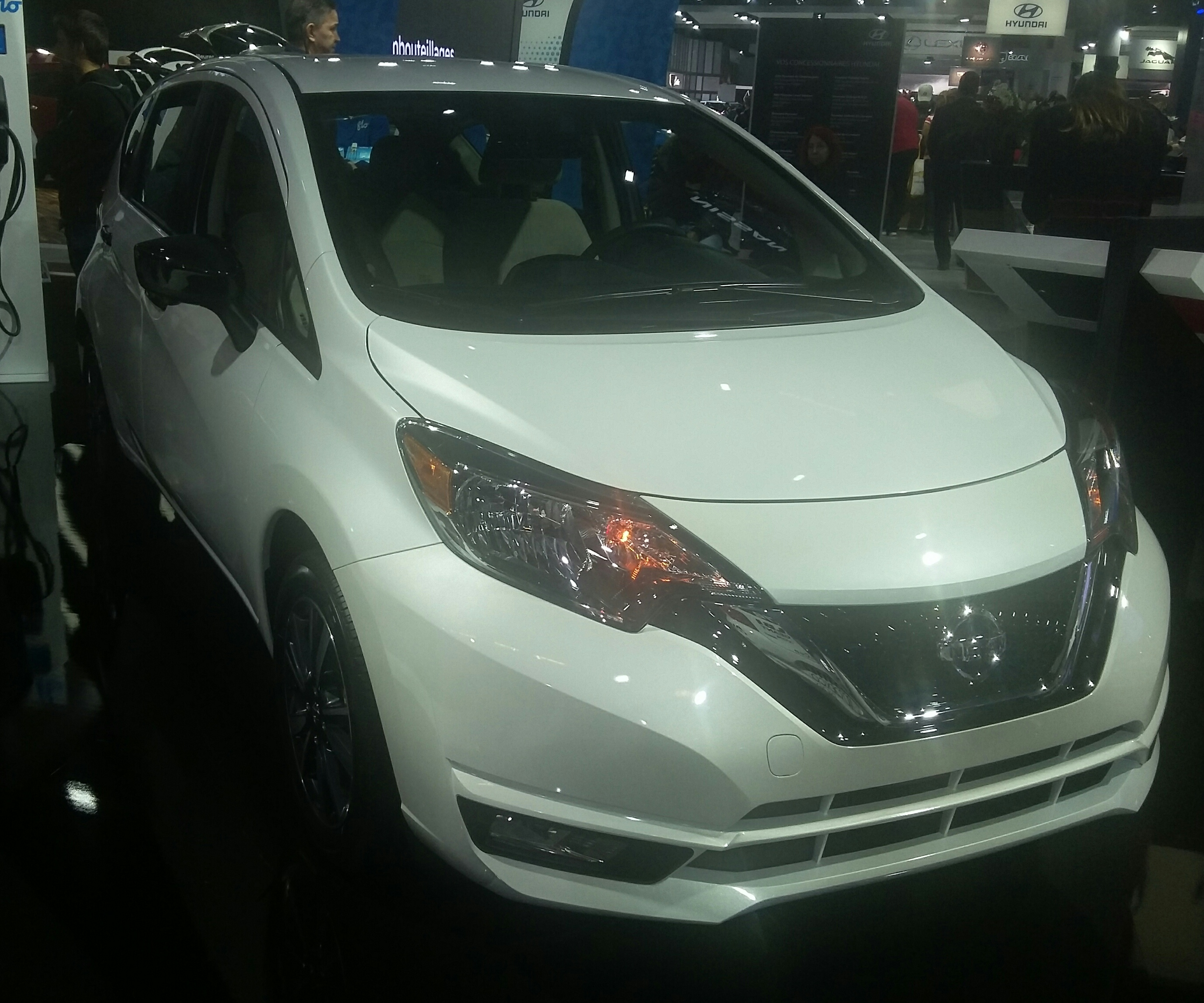 2017 Nissan Versa Note photographed in Montréal, Québec, Canada at the 2017 Montréal International Auto Show.